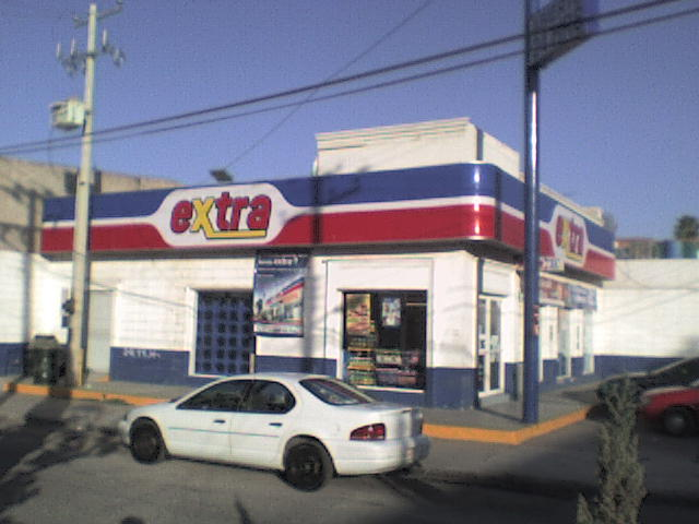 Extra store in Lerdo, Durango.